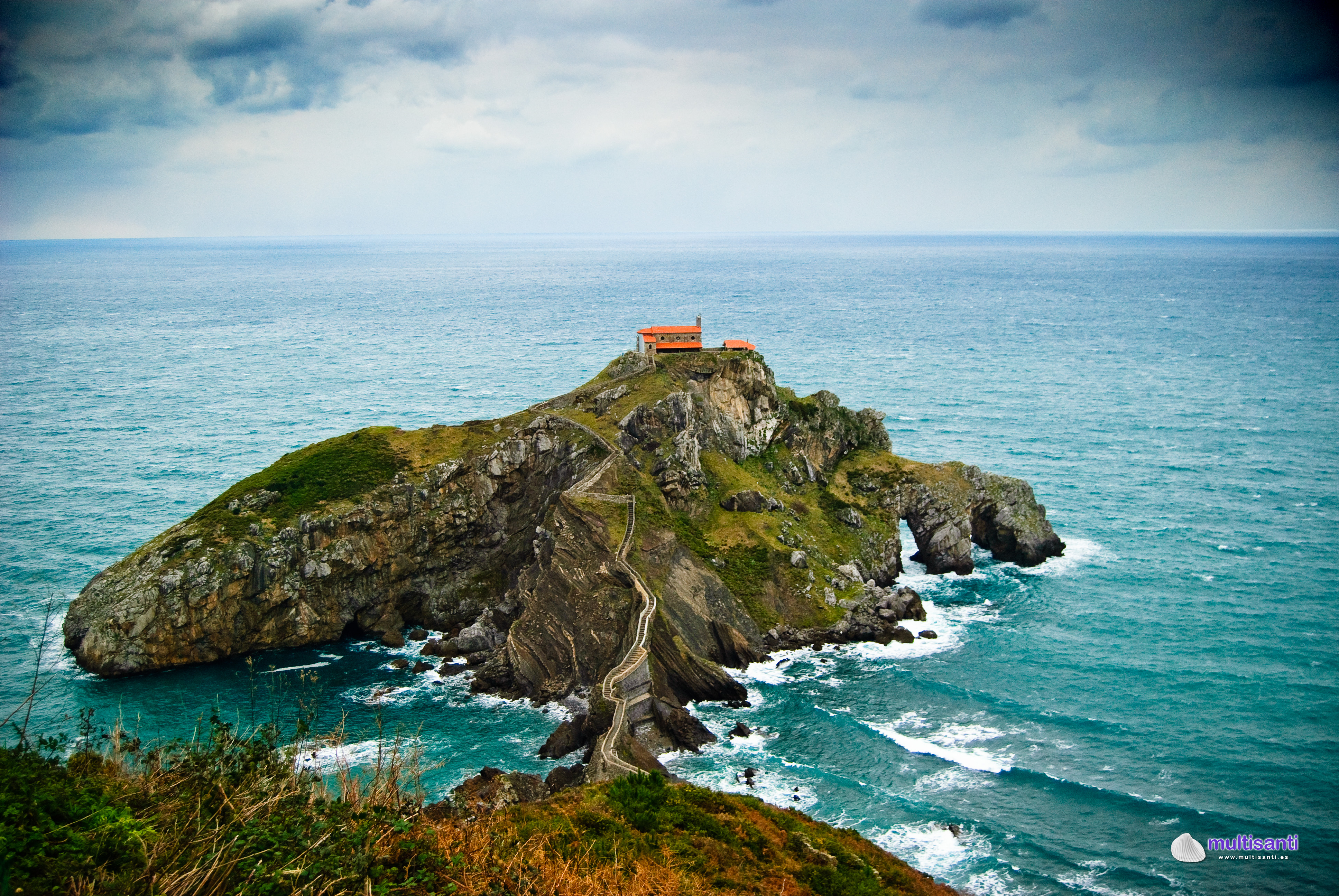 Ermitage of San Juan de Gaztelugatxe in Bermeo, Vizcaya, Basque Country (Spain).